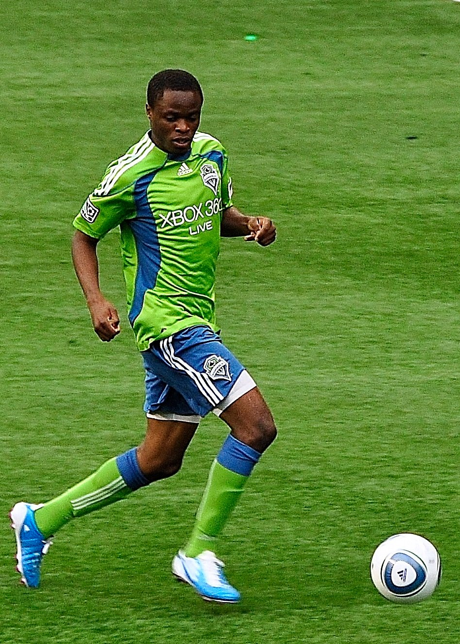 Steve Zakuani on July 11, 2010 vs FC Dallas